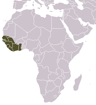 Pardine Genet (Genetta pardina) range